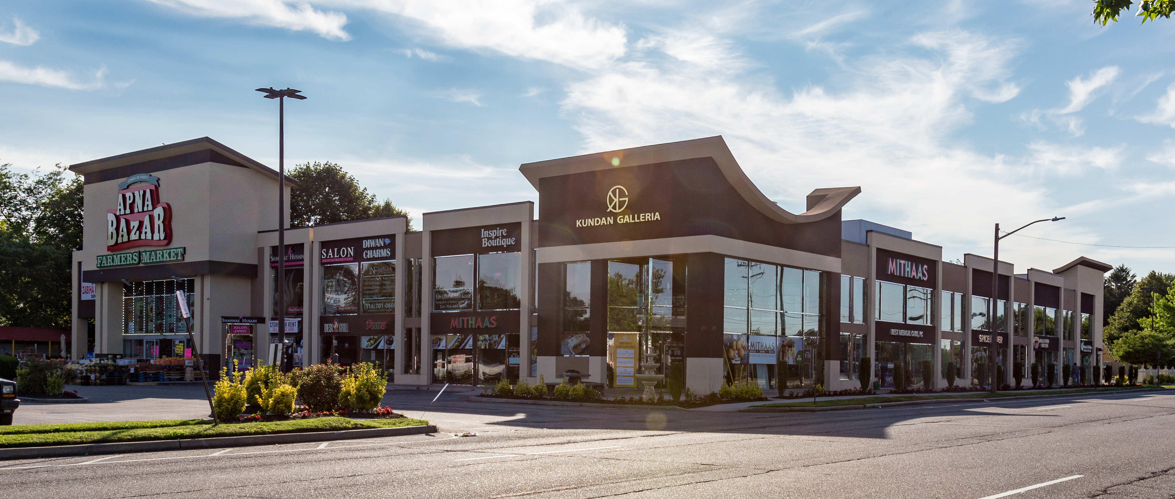 Kundan Galleria is a South Asian shopping center, at 217 Bethpage Rd, Hicksville, NY.